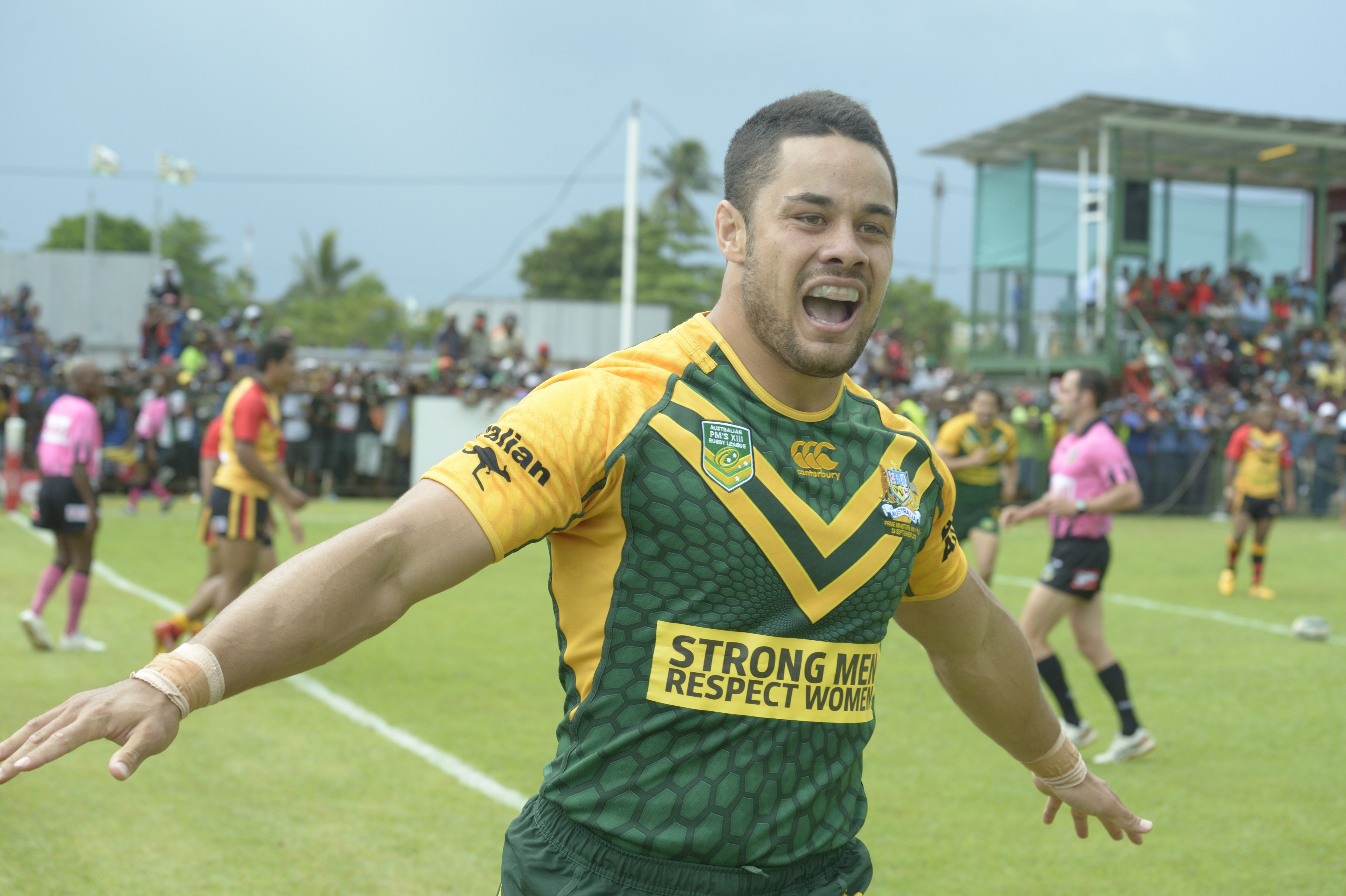 Australian rugby league player Jarryd Hayne during between Papua New Guinea and australian Prime Minister's XIII in Kokopo, PNG.